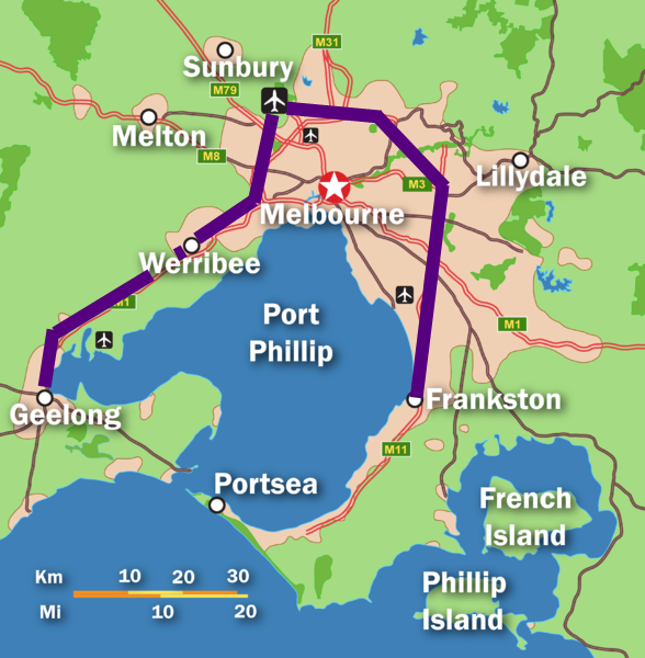 A simple PNG format map of Greater Melbourne showing the proposed Maglev route